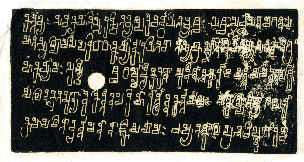 Tirodi plate of Pravarasena II, fifth plate